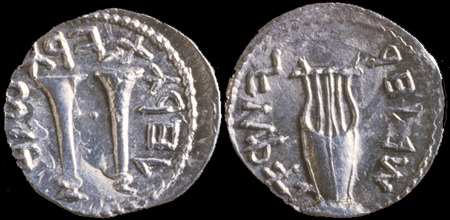 Coin from Jewish Bar Kokhba revolution. Written in Paleo-Hebrew alphabet also known as Ktav Ivri. Obverse: trumpets surrounded by "To the freedom of Jerusalem". Reverse: A lyre surrounded by "Year two to the freedom of Israel"